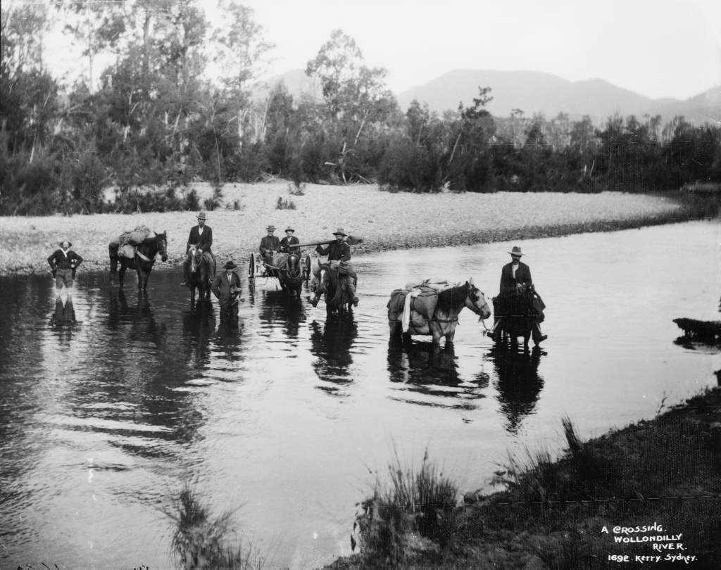 'Rural Life' Pictures from The Powerhouse Museum This files was posted to Flickr by The Powerhouse Museum (See their website for further information). Many thanks to the Powerhouse Museum for helping release this wonderful material. This tag does not indicate the copyright status of the attached work. A normal copyright tag is still required. See Commons:Licensing for more information.